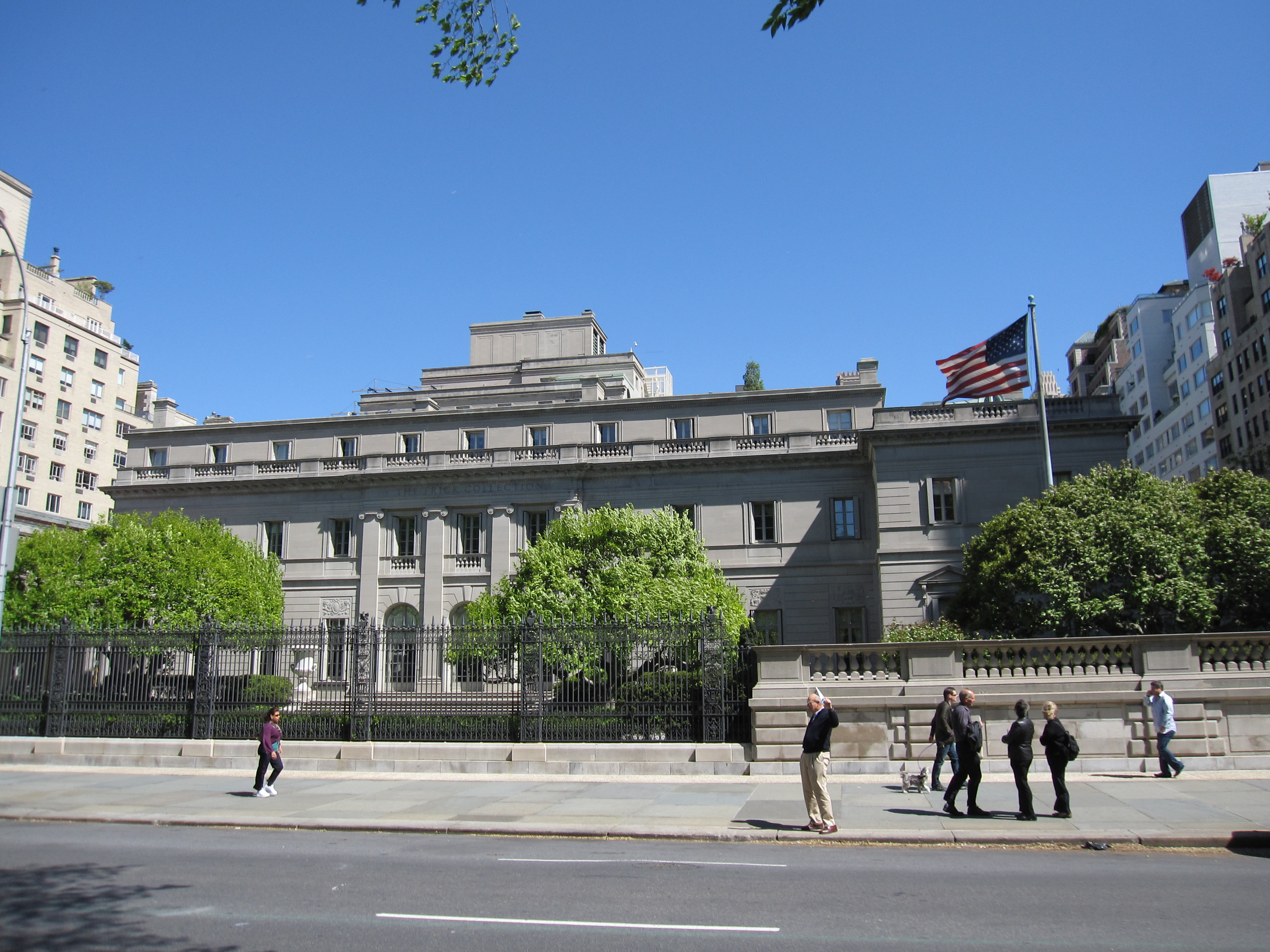 Henry C. Frick House on 5th Avenue in New York, today contains the Frick Collection.